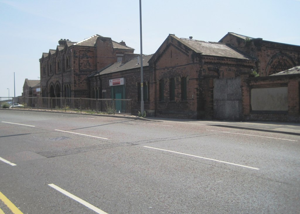 Barrow-in-Furness railway station (site), CumbriaOpened in 1846 by the Furness Railway, this terminus station closed in 1882 when it was replaced by the current through station. Forecourt. Railwaymen's Club, Barrow-in-Furness, England formerly Barrow-in-Furness Strand railway station and the headquarters of the Furness Railway